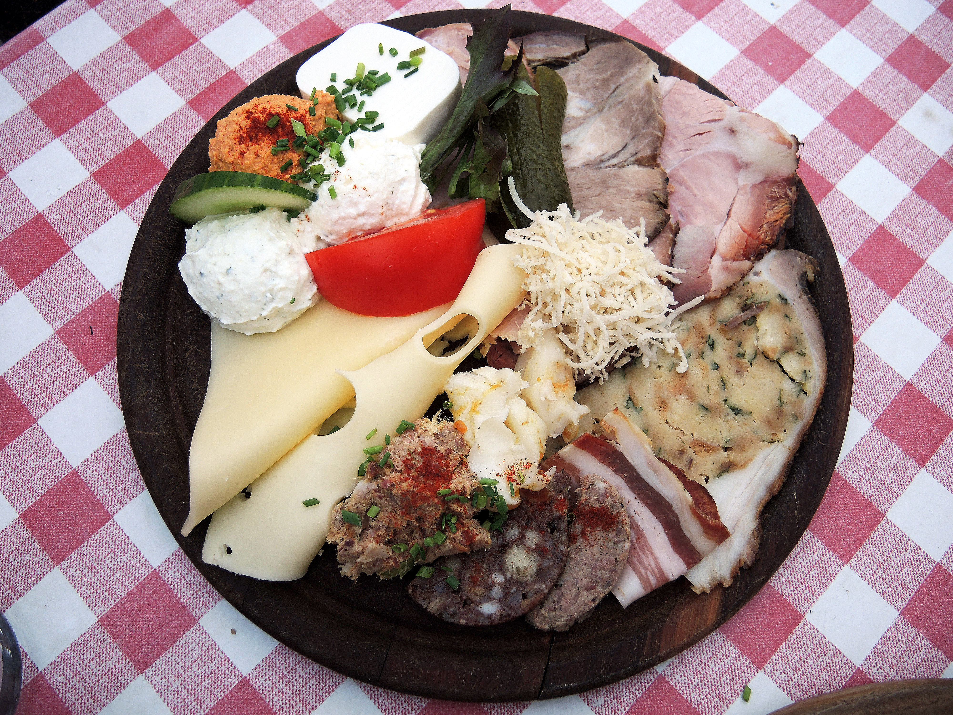 Snack "Brettljause" is a mix of smoked meat, bacon and cheese variations, a sliced dumpling and decorated with a tomato as well as sliced pickels and fresh grated horse radish